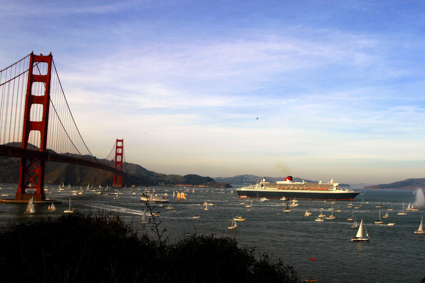 RMS Queen Mary 2 just went under Golden Gate Bridge and arrived in San Francisco Bay The image was taken by Brocken Inaglory